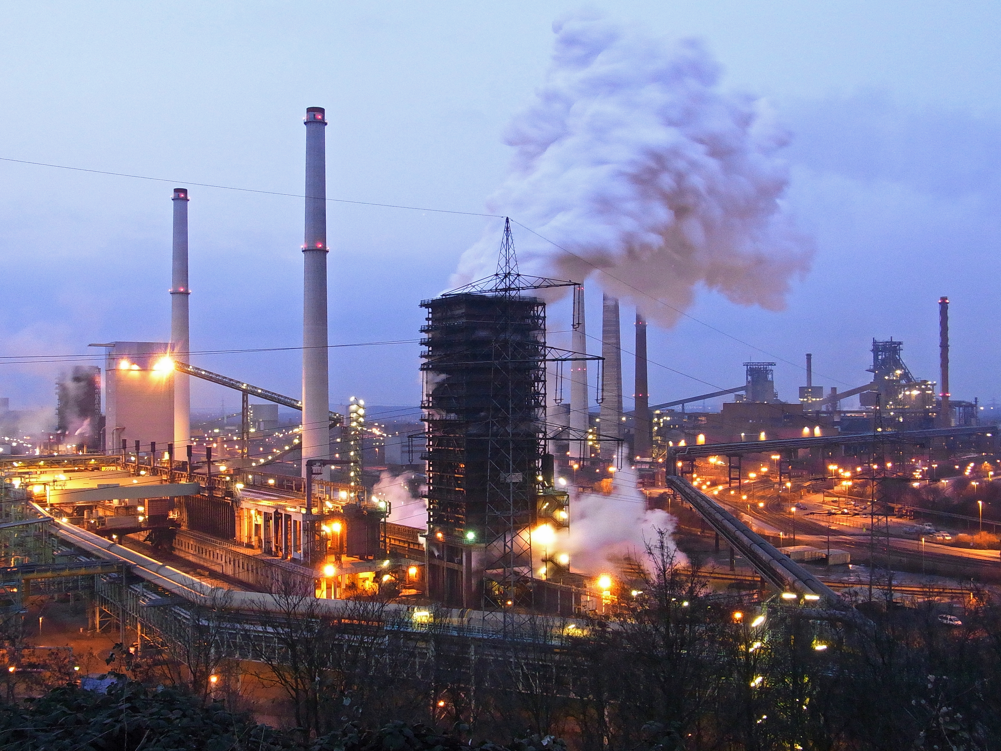 Photo output of the Tour de Ruhr of the European Capital of Culture Ruhrgebiet for the Free Travel-Shirt